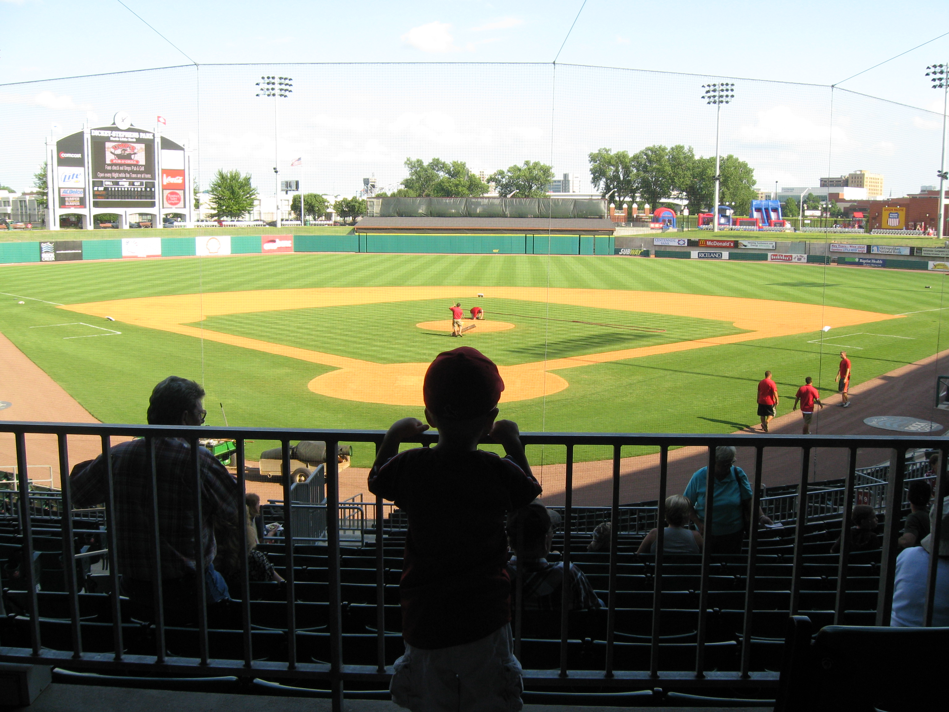 My son at Dickey Stephens Park in July 2009.